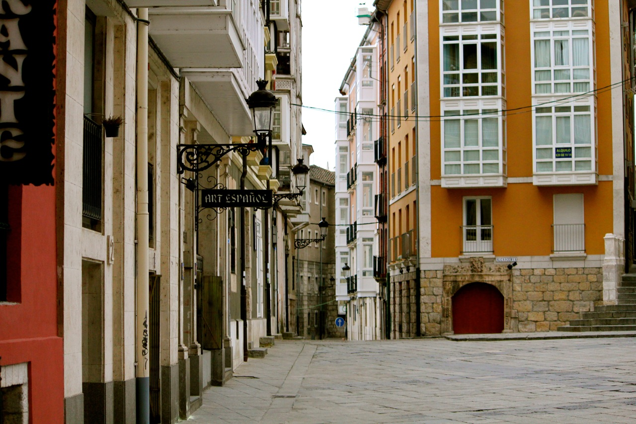 Historic City Centre of Burgos